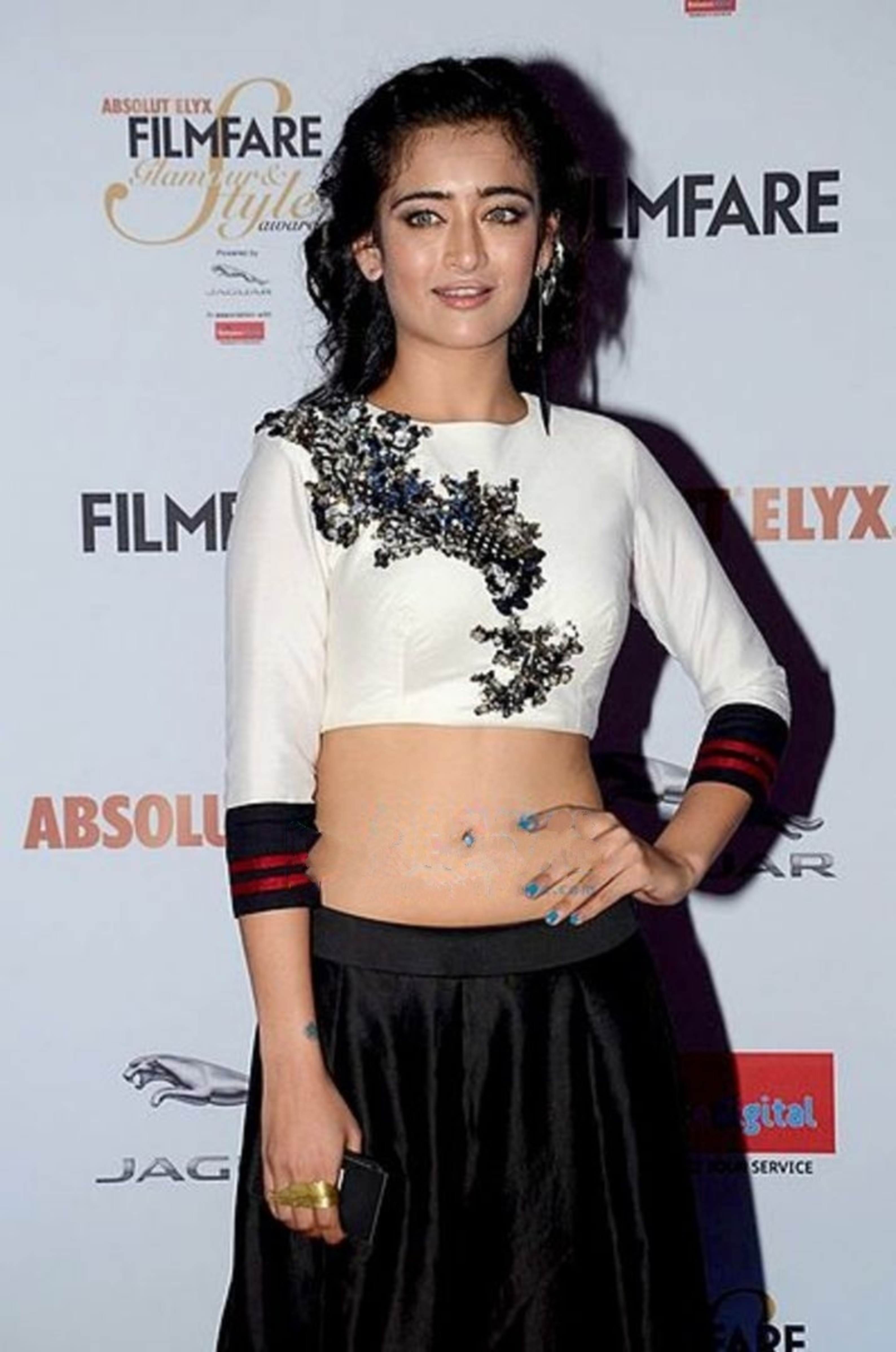 Haasan gracing ‘Filmfare Glamour & Style Awards 2016’